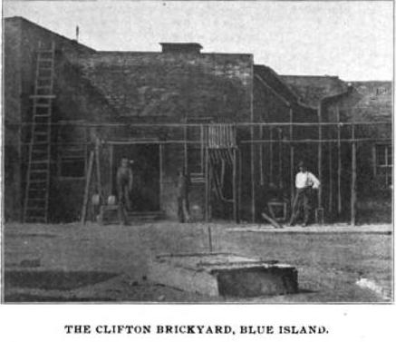 An image of one of the sheds and two workers at the Clifton Brickyard in Blue Island, IL, 1901